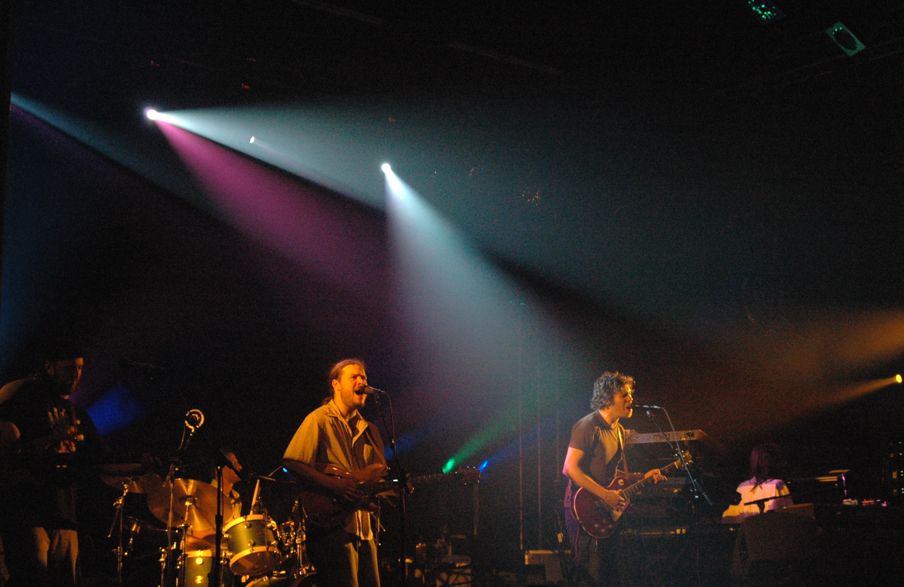 Particle performing at the Granada Theater in Dallas, TX on March 17, 2006.